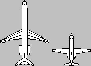 Aircraft involved in the Linate Airport disaster on 8 October 2001